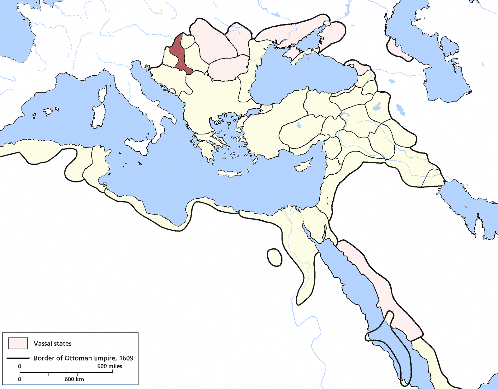 Budin Eyalet, Ottoman Empire (1609). Source: Encyclopedia of the Ottoman Empire at Google Books By Gábor Ágoston, Bruce Alan Masters